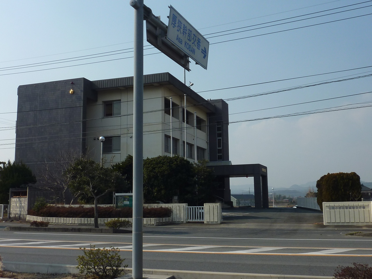 Sanyo-Onoda Police Station Asa Koban (Yamaguchi, Japan)